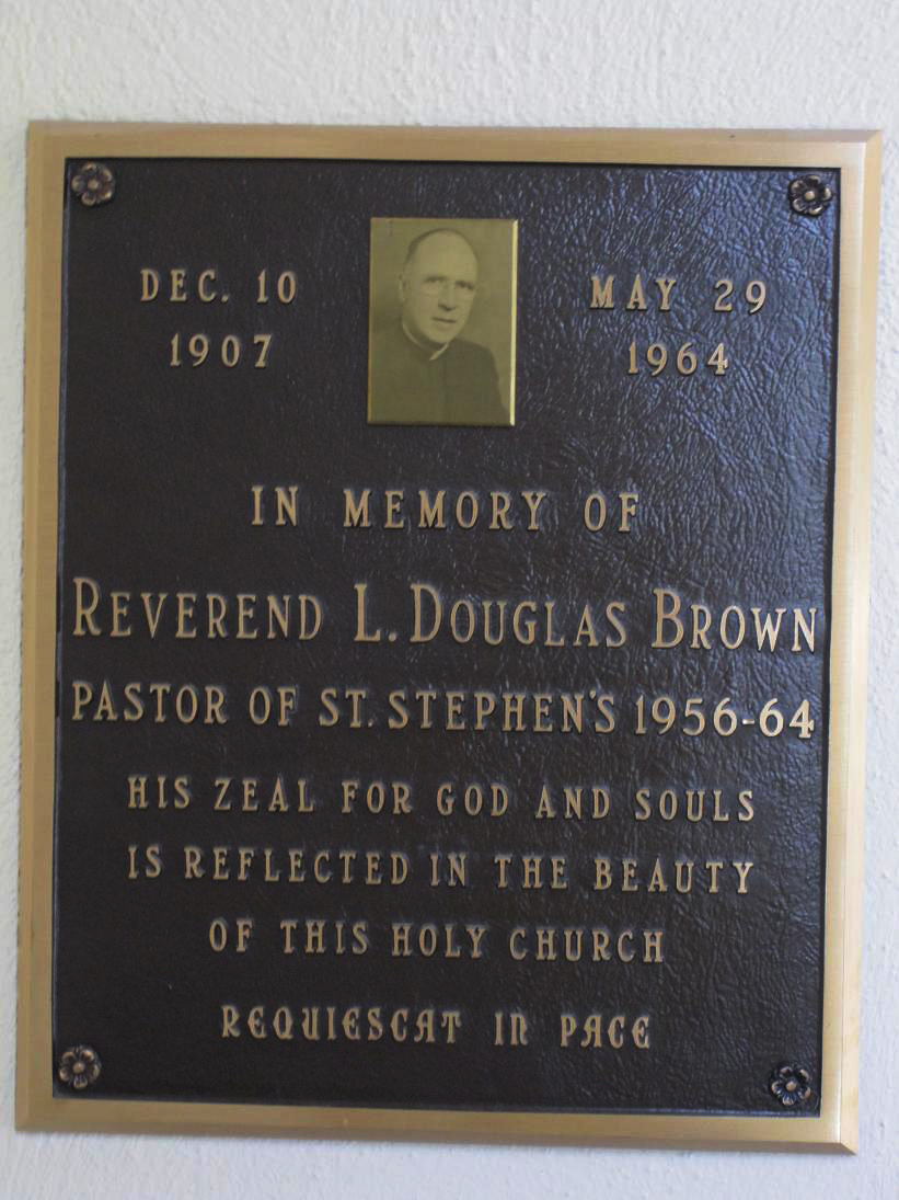 Plaque in honor of L. Douglas Brown displayed in St. Stephen's R.C. Church in Cayuga, Ontario